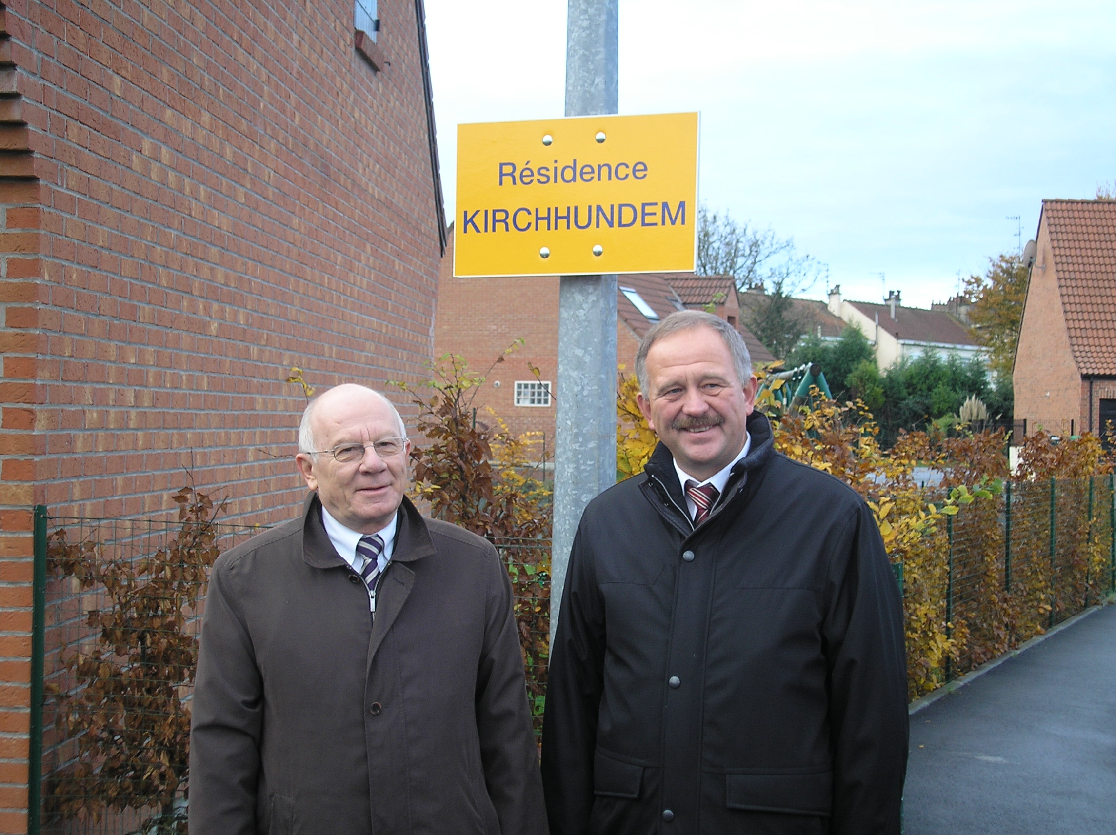 kirchhundem